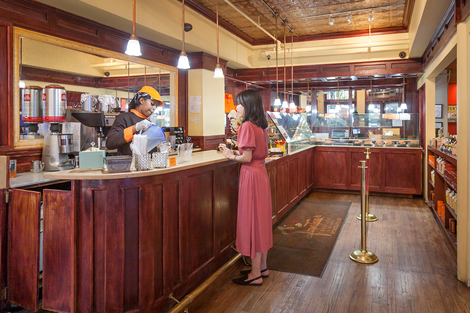 Jacques Torres Chocolate, 66 Water Street, Brooklyn NY (Photo gallery of DUMBO, Brooklyn)